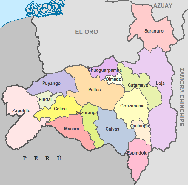 Cantons of Loja